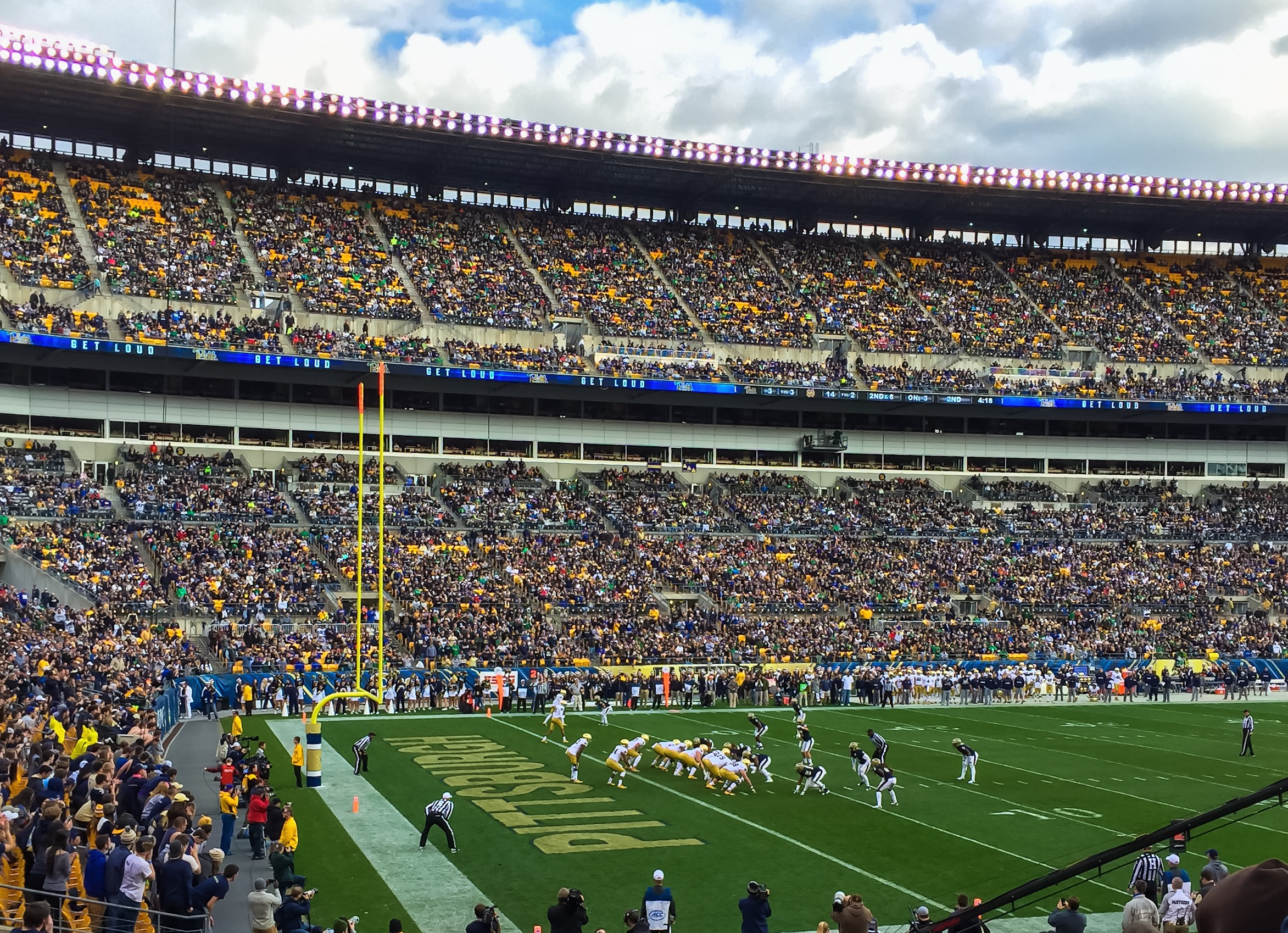 University of Pittsburgh Football plays Notre Dame, 7 November 2015